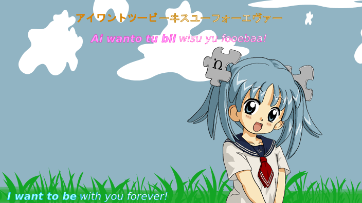 Beta image for fansub using the lovely Wikipe-tan. Wikipe-tan is from :ja:利用者:Kasuga~jawiki. The fansub image was done by me.